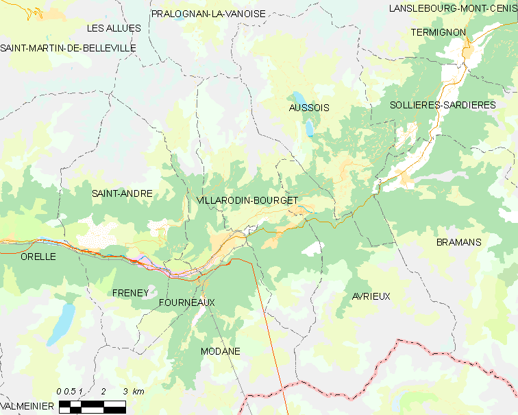 Map of French municipality Villarodin-Bourget